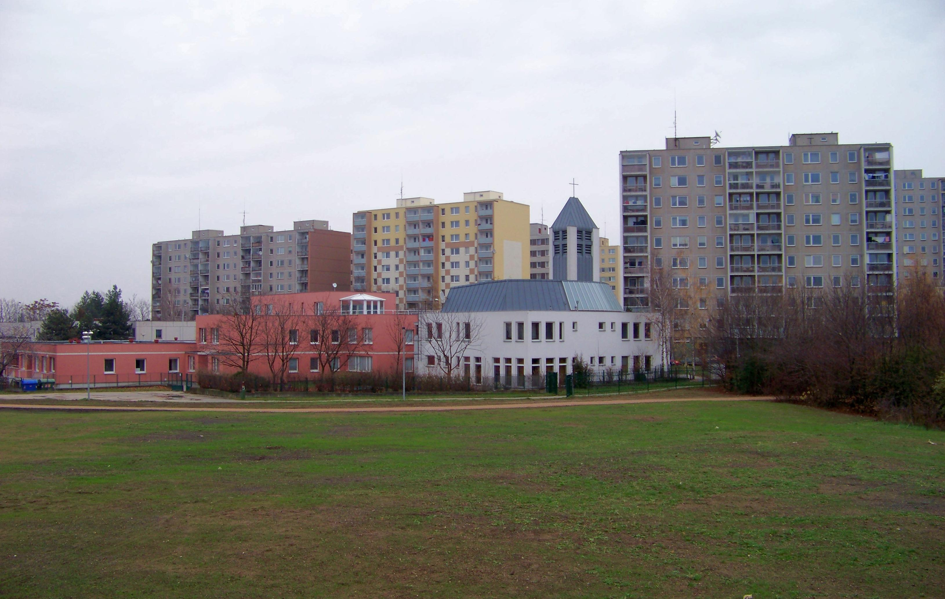 Prague-Chodov, the Czech Republic. Park near Chodov Fort, Litochleby Housing Estate, Evangelical church of Milíč from Kroměříž.